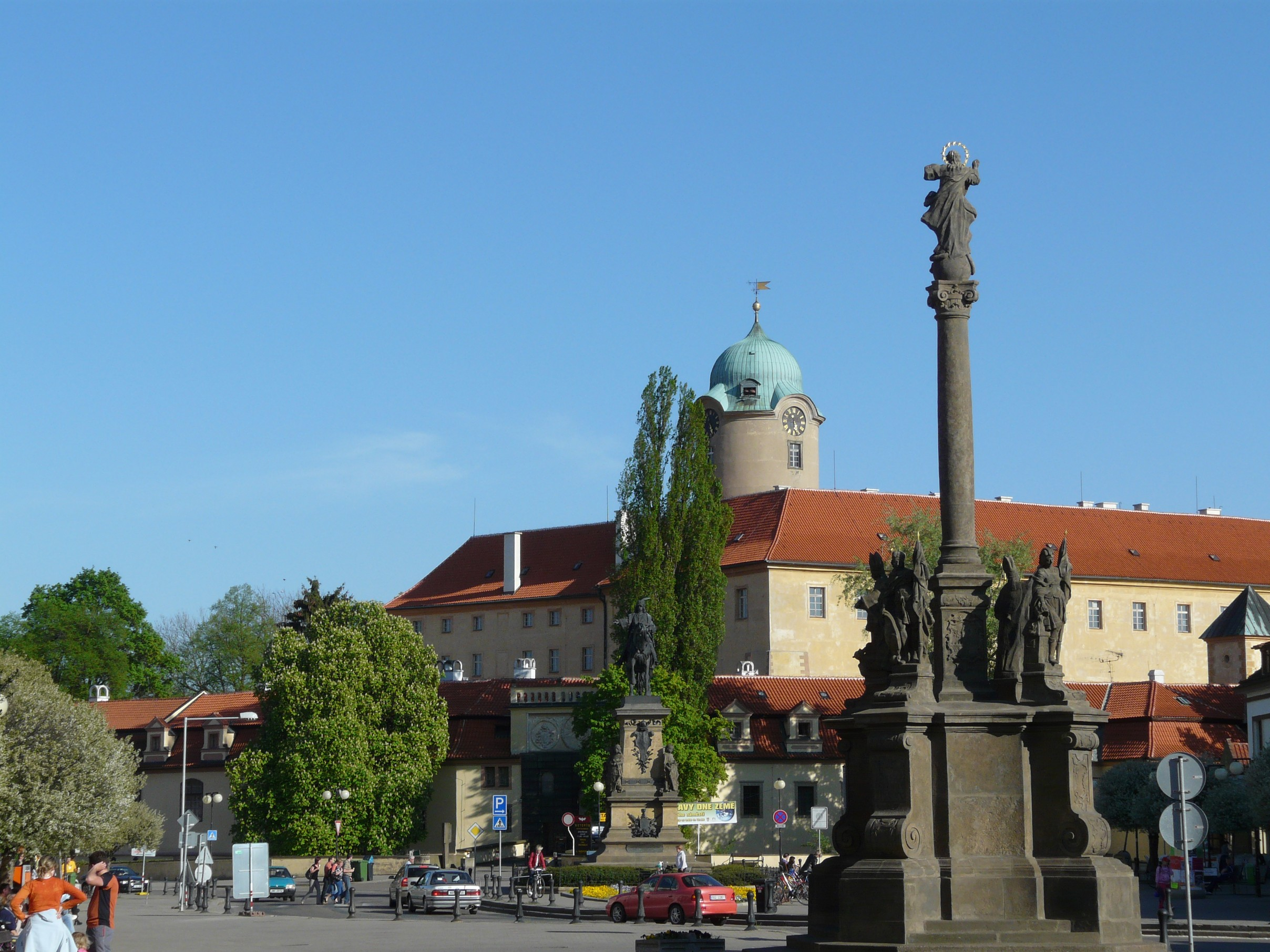 George of Poděbrady Sq, Poděbrady; view of the castle and the Marian column